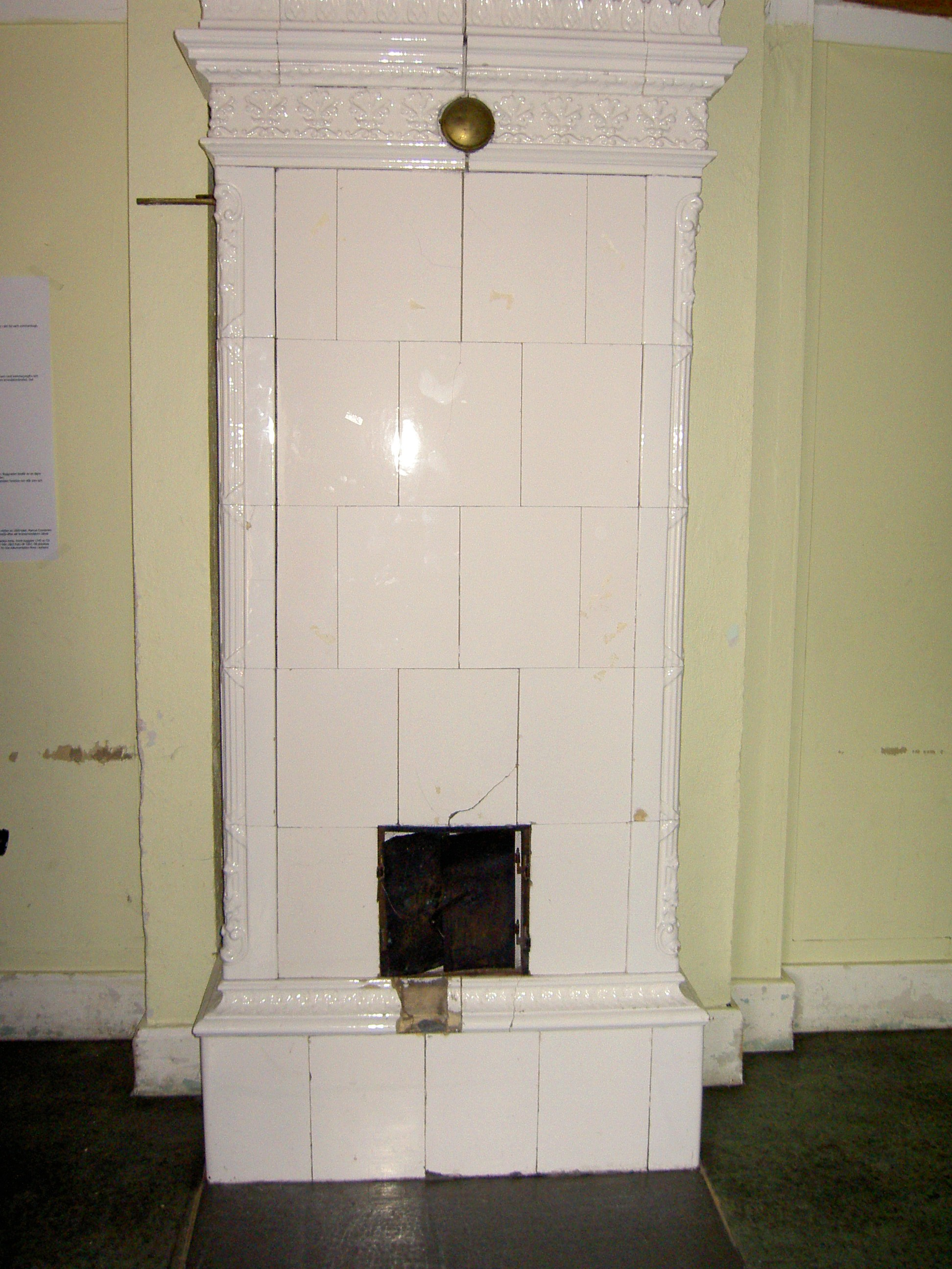 Malingsbo mansion, Smedjebacken municipality, Sweden